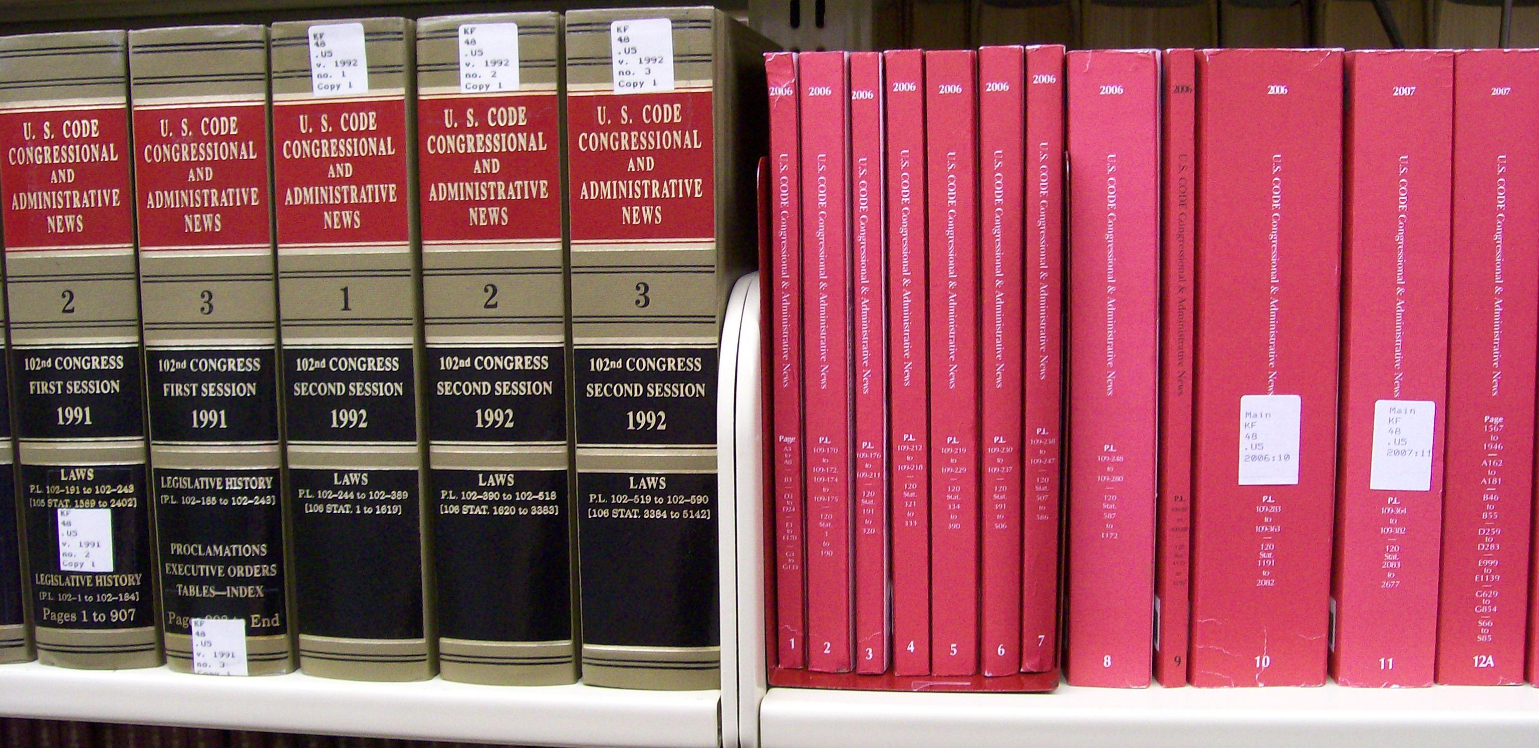 The library of the Southern Illinois University School of Law.